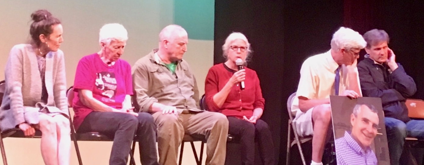 Six of the Kings Bay Plowshares 7 at Festival of Hope during the federal trial in Brunswick, Ga. Martha Hennessy, Mark Colville, Clare Grady, Carmen Trotta, Patrick O'Neill, Liz McAlister, Fr. Steve Kelly is in photo (held in prison.)